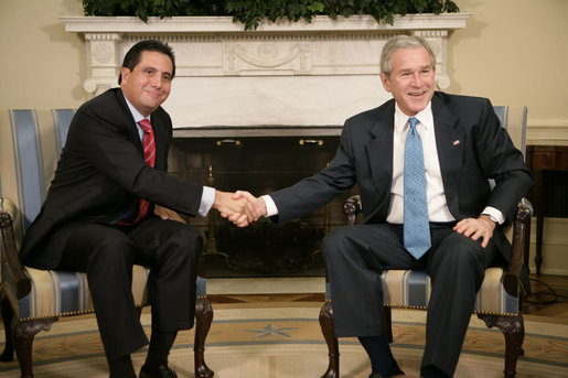 US President George W. Bush welcomes Panama’s President Martin Torrijos to the Oval Office, Friday, Feb. 16, 2007. (Details)